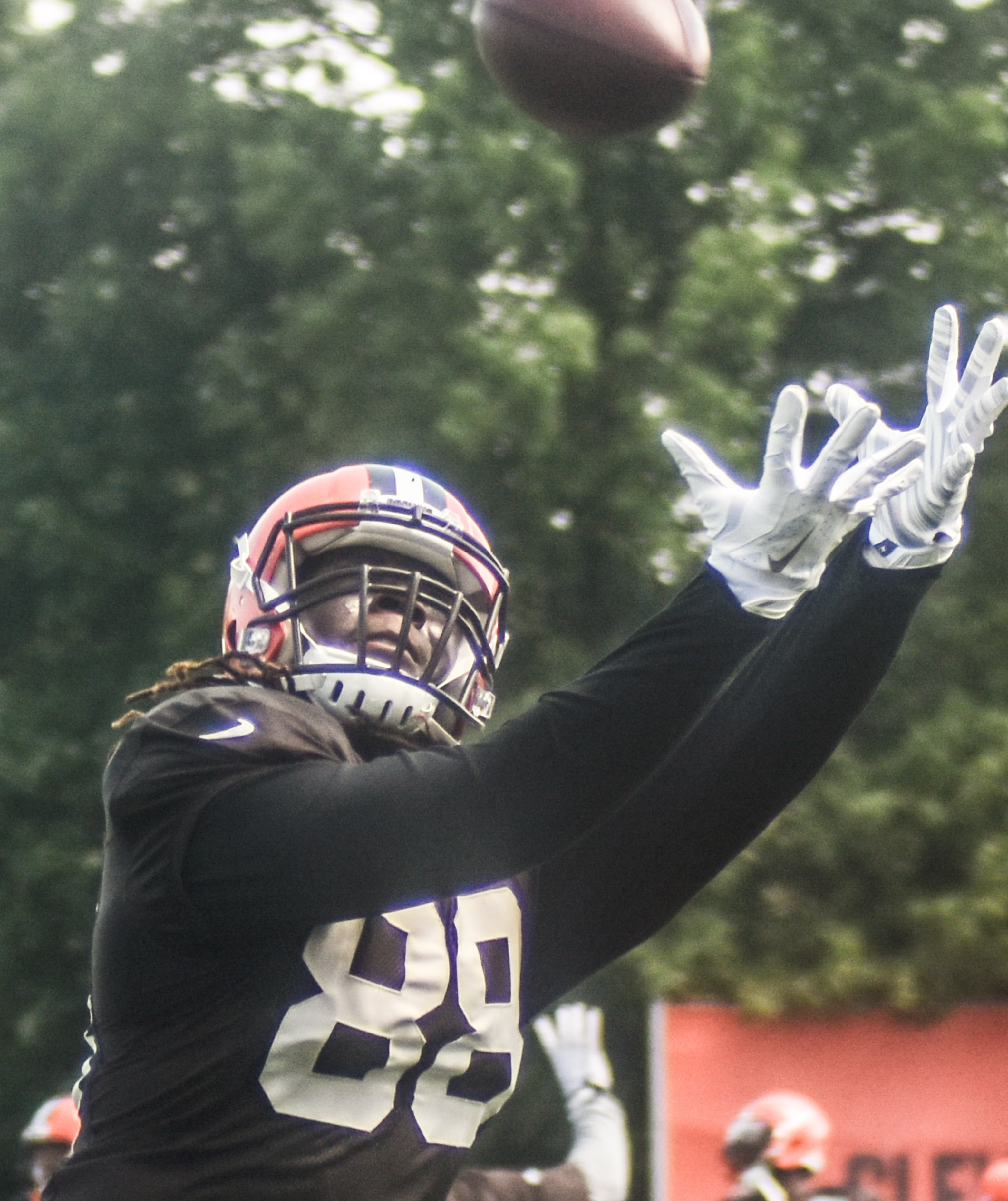 2016 training camp